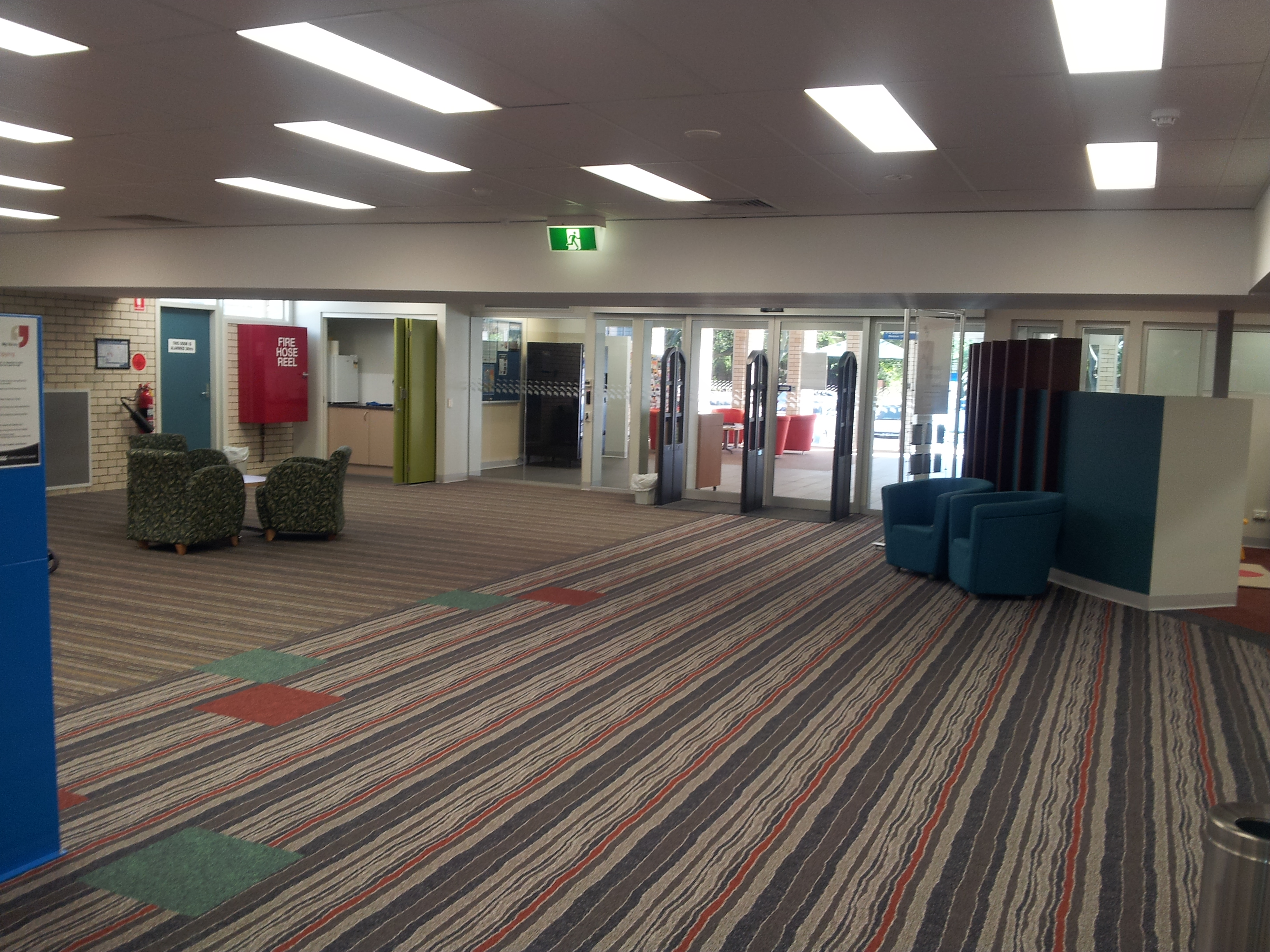 Refurbished Palm Beach Branch Library